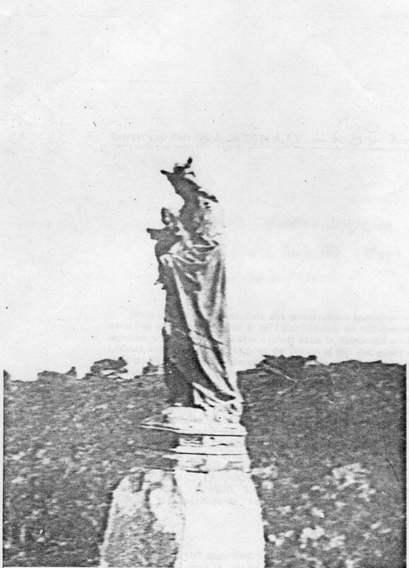 Black and white photograph of a statue of a crowned virgin in feet carrying a child in arms